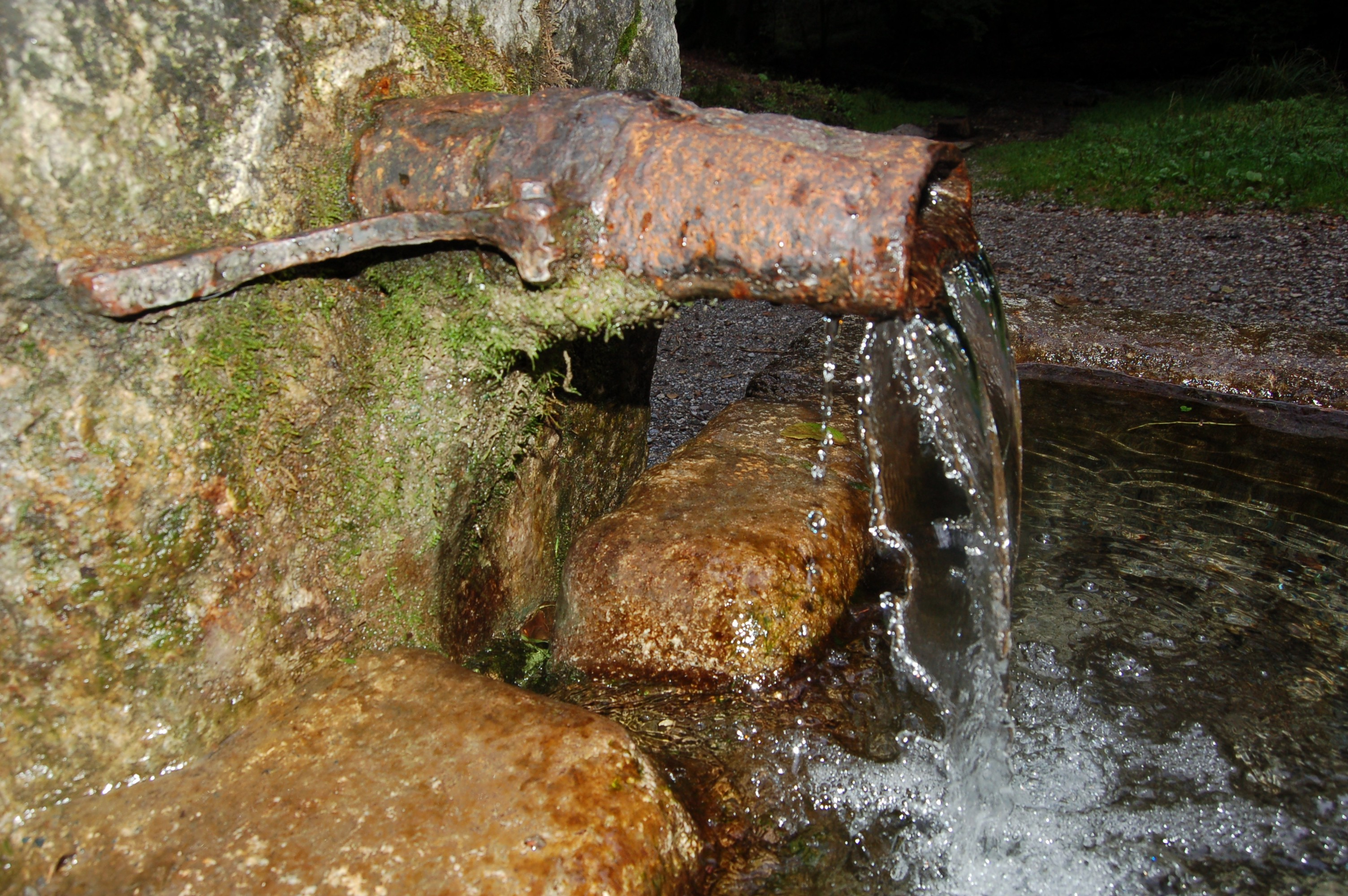 Water inlet and Drain of the Glasbrunnen, a fountain in the middle of the Bremgarten-Forest in Berne, Switzerland